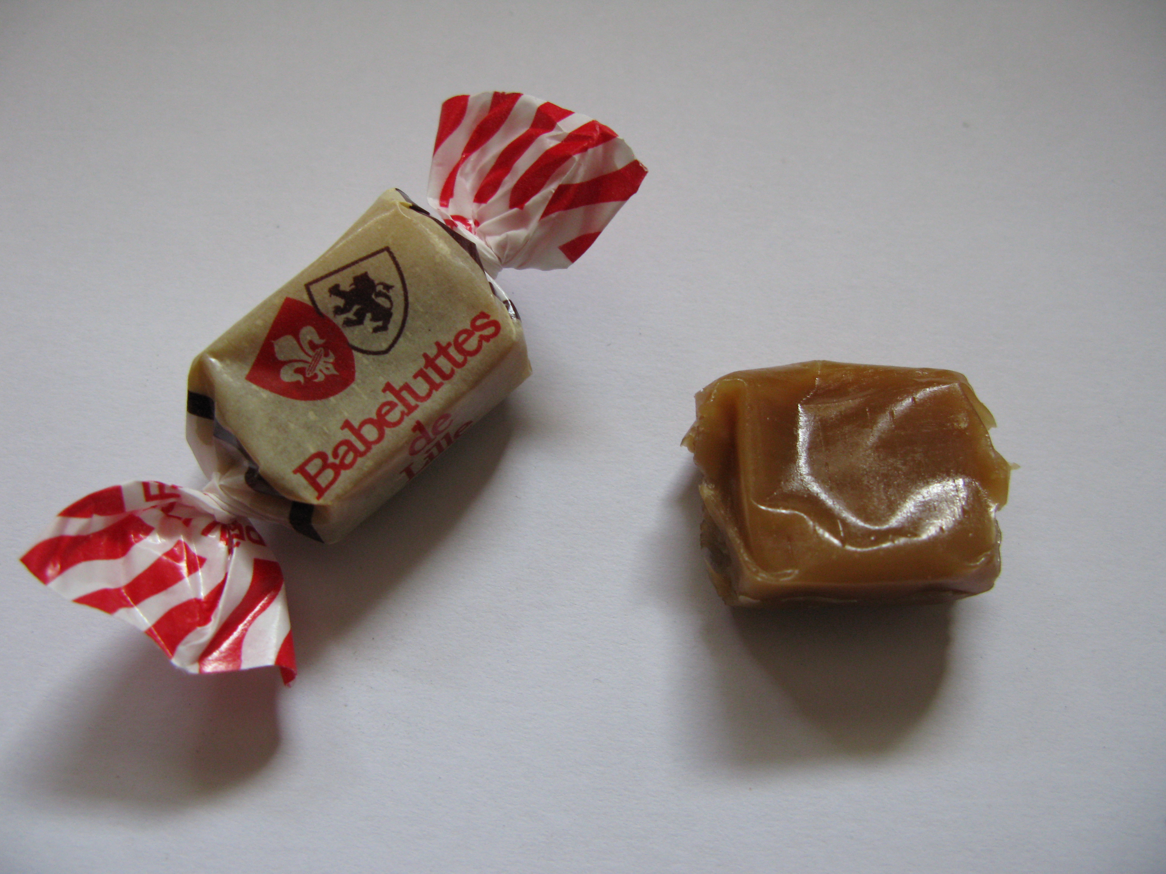 Babeluttes de Lille toffees.